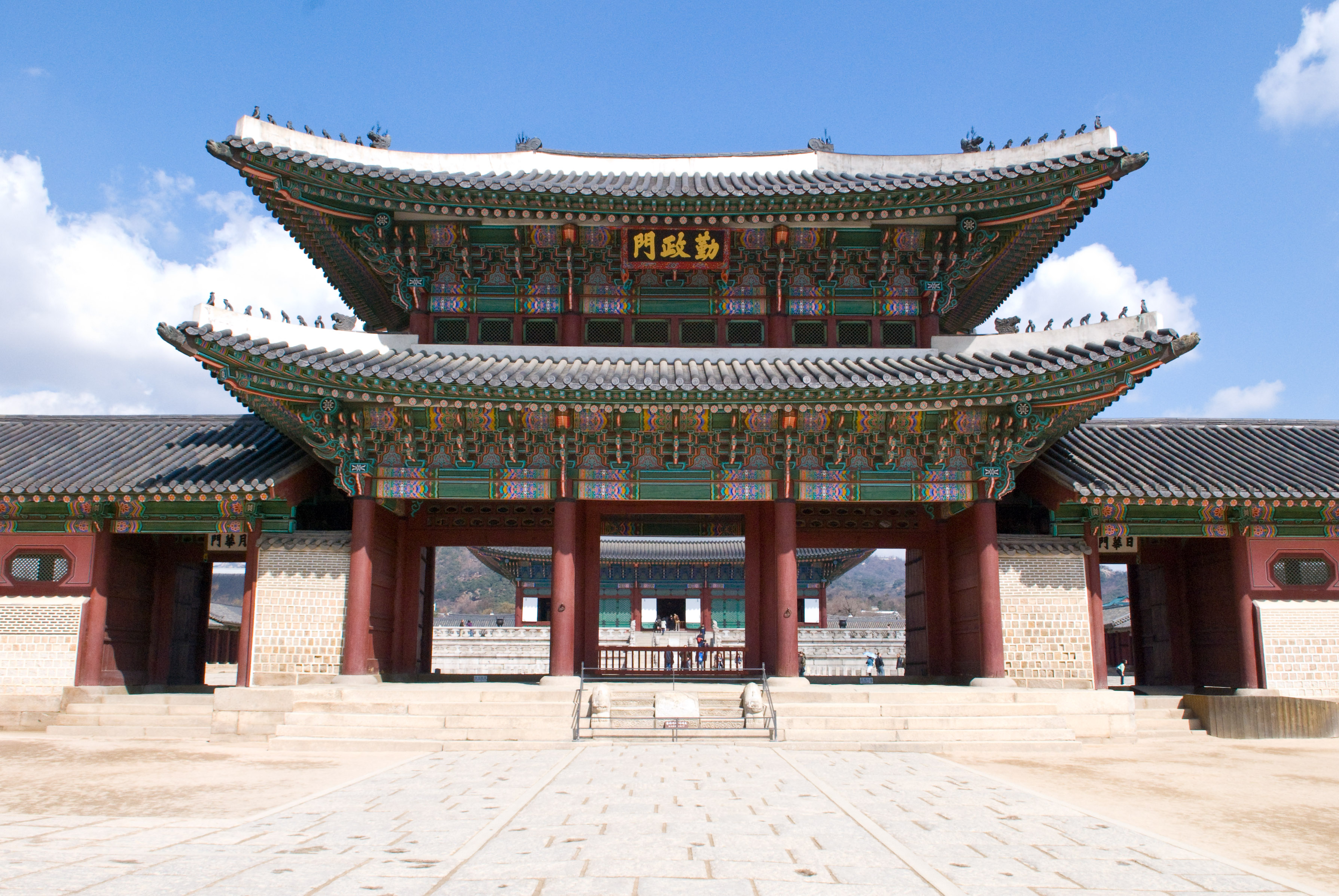 Geunjeongmun